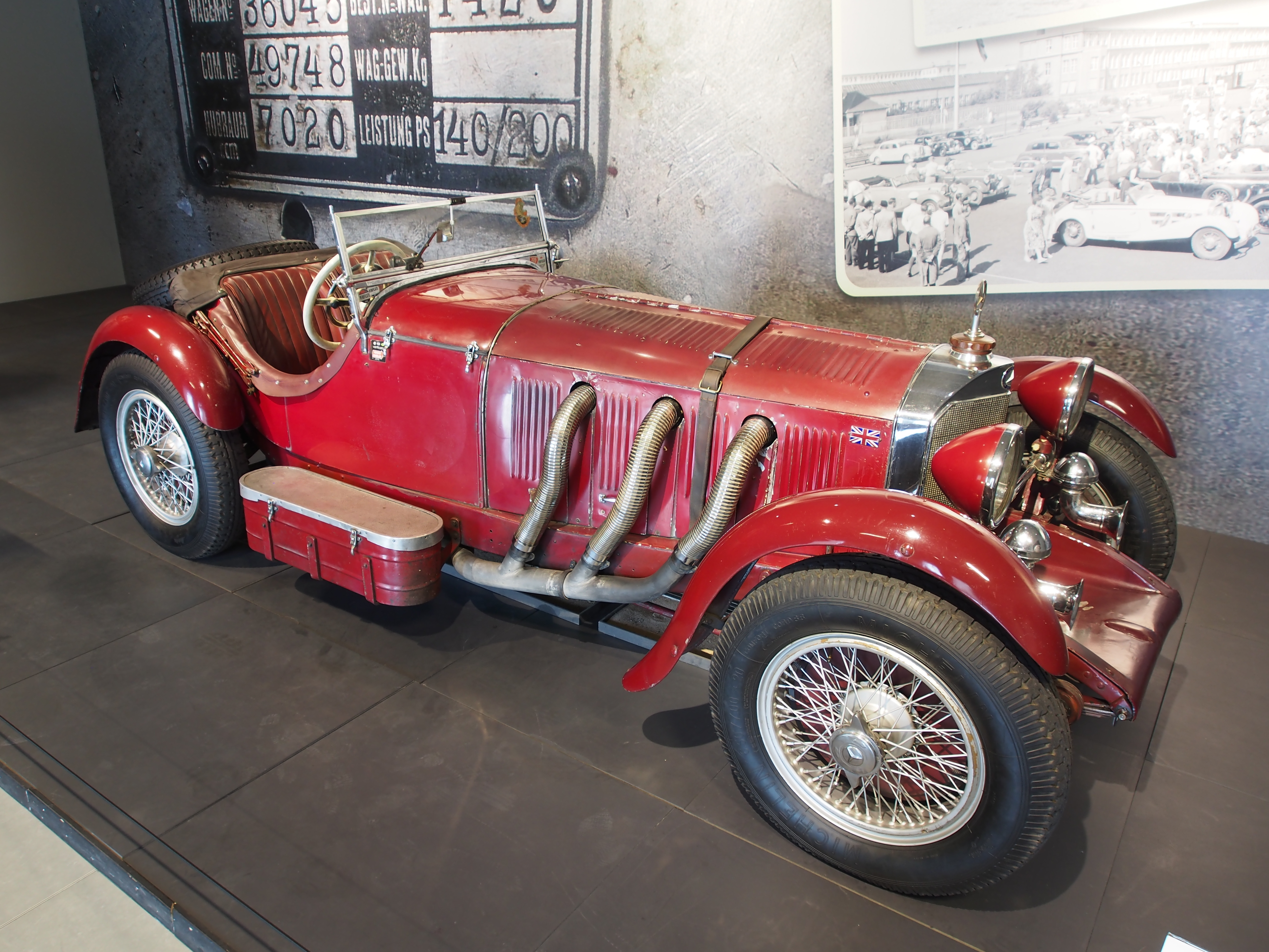 1929 Mercedes-Benz SSK photographed at the Louwman museum.